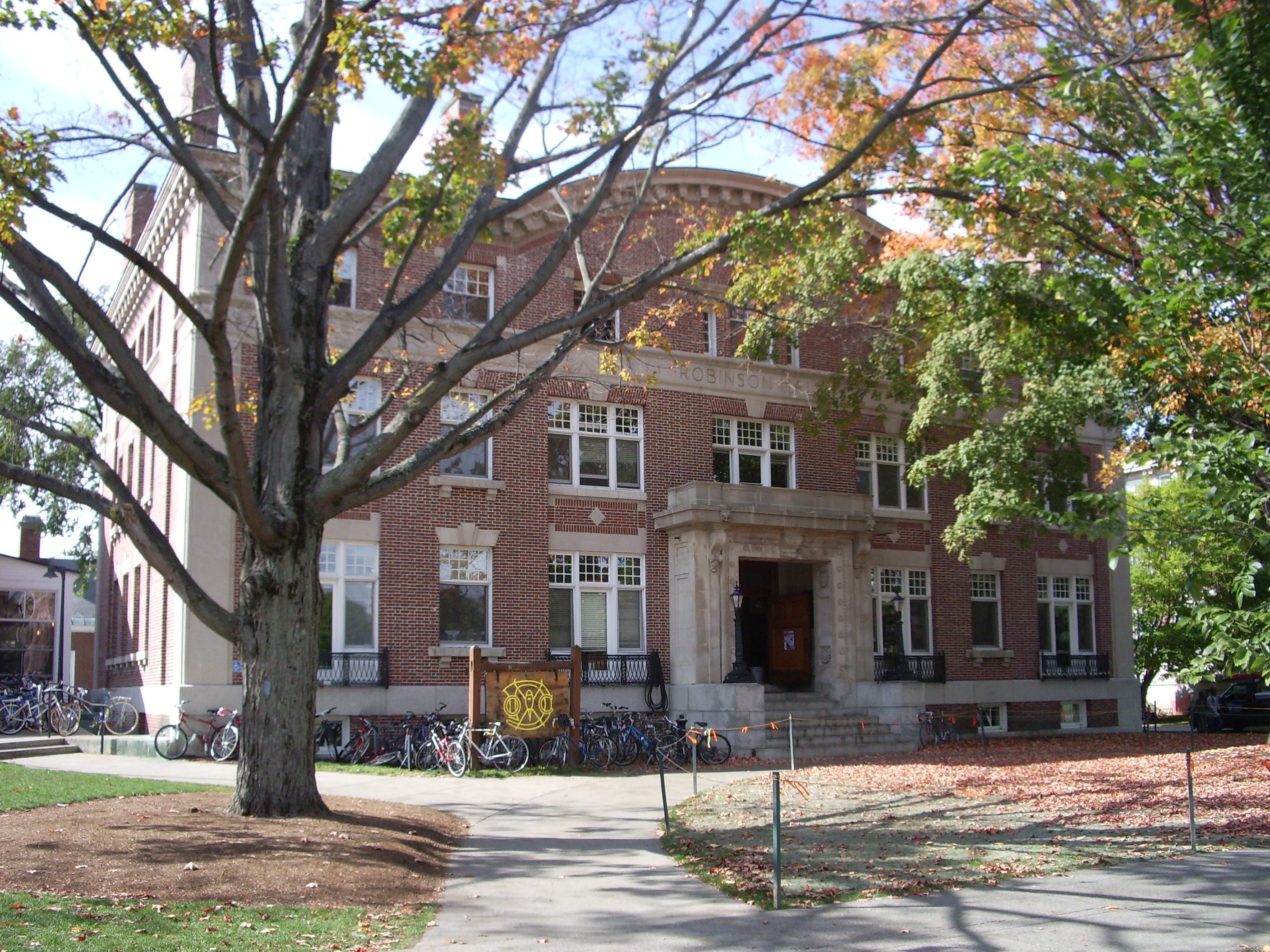 Photograph of Robinson Hall at the campus of Dartmouth College in Hanover, New Hampshire.